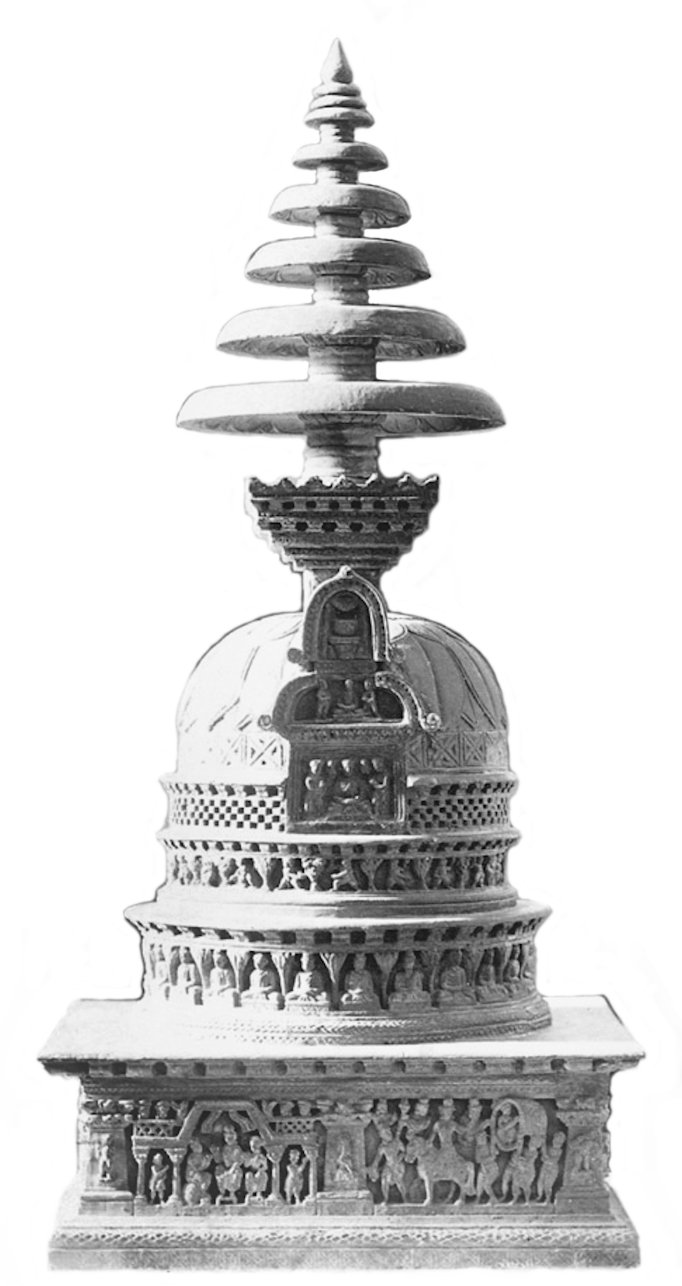 Loriyan Tangai complete Stupa. The stupa today in the Indian Museum, Kolkota.